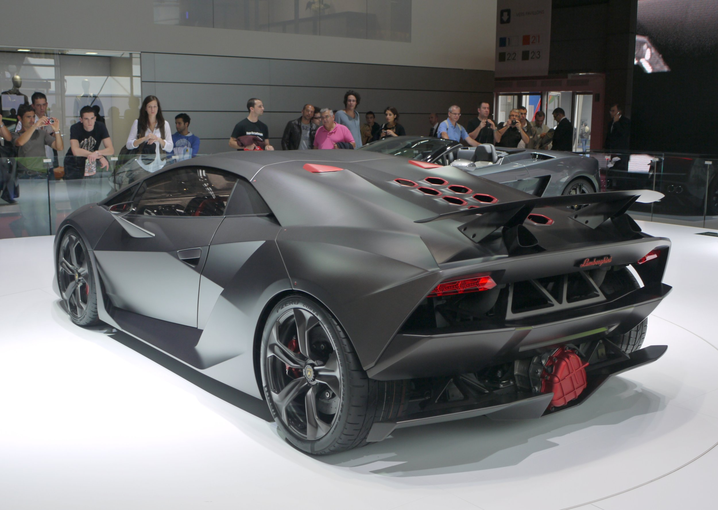 Lamborghini Sesto Elemento concept. The Sesto Elemento is equipped with a 6-speed paddle-shifted manual transmission and all-wheel-drive system, mated to a 5.2-litre V10 engine borrowed from the Lamborghini Gallardo, generating 570 horsepower and 398 ft-lb of torque. The chassis, body, driveshaft and suspension components are made of carbon fiber, reducing the overall weight to a mere 2,202 lbs, making it the lightest car Lamborghini has ever produced. Perspired air is released through 10 distinctive hexagonal holes in the engine cover, while two intakes funnel cool air into the mid-mounted engine compartment. The Sesto Elemento's high amount of horsepower combined with low overall weight translate to a power-to-weight ratio of just 3.86 lbs/hp. Lamborghini claims a 0–100 km/h (0-62 mph) acceleration time of just 2.5 seconds, and a top speed in excess of 300 km/h (186 mph). The Sesto Elemento's name stems from the car's extensive use of carbon fiber, carbon being the sixth element in the periodic table of elements.